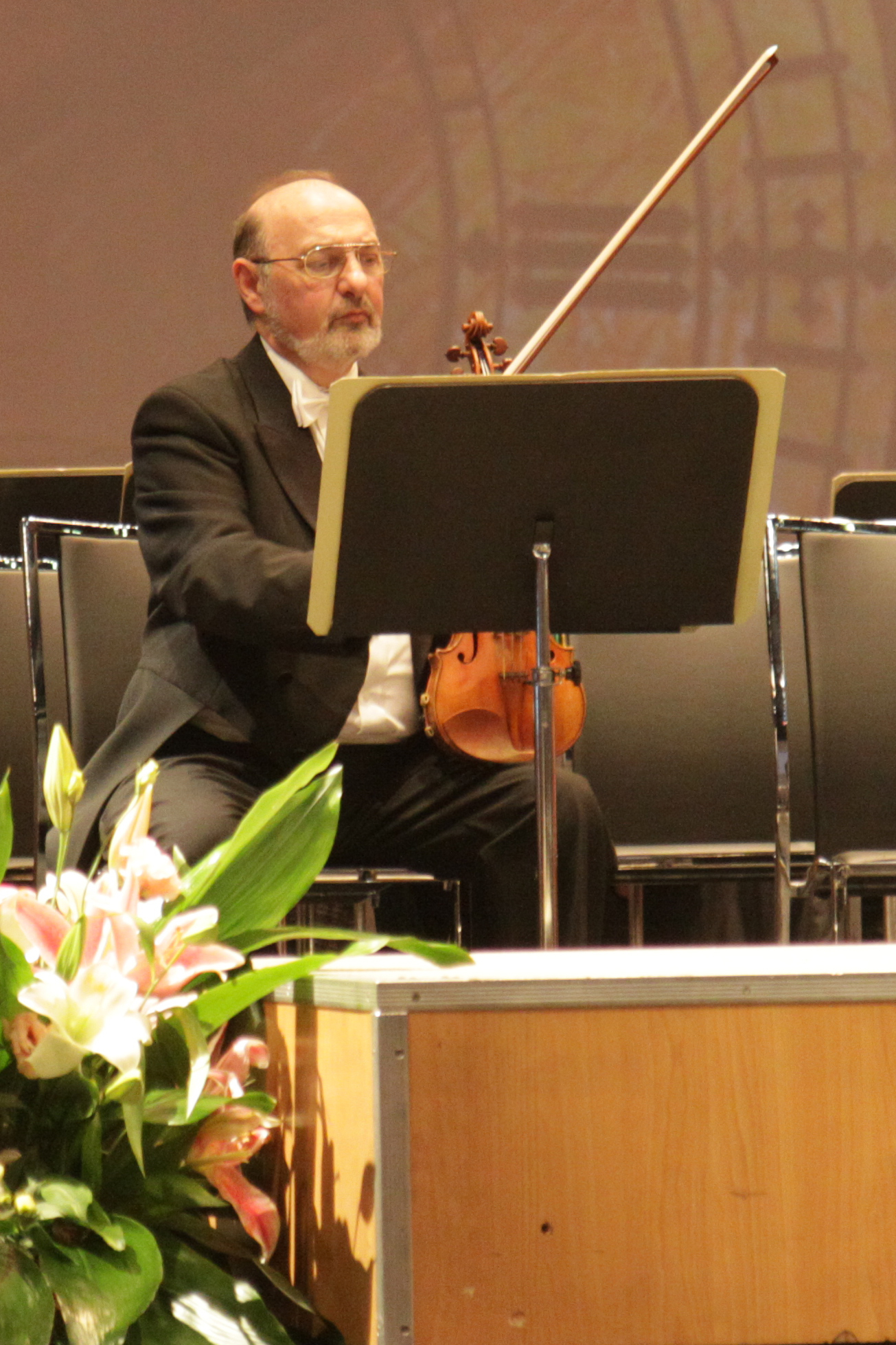 Lazar Shuster, First Violin and Concertmaster of the Israel Philharmonic Orchestra. January 2012, Tel Aviv